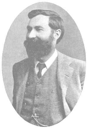 Photograph of Francis Sheehy-Skeffington, 1878-1916, Irish Suffragist, Pacifist and Writer.